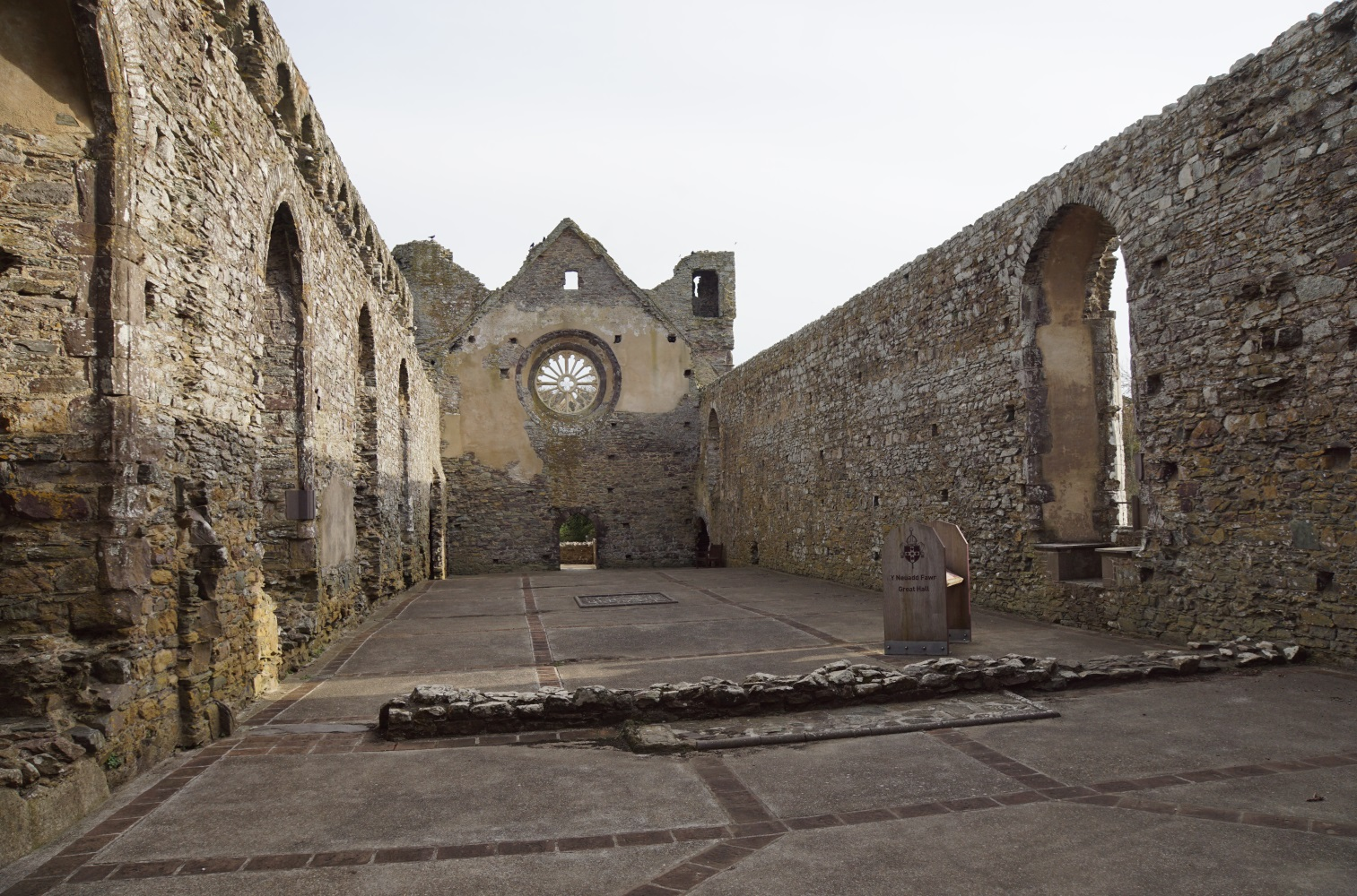 St. Davids Bishop's Palace, St. Davids, Wales, United Kingdom. Great Hall interior, seen from west.